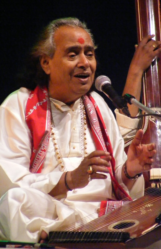 Live at Yeshwantrao Chavan Natyagriha, Kothrud, Pune on 17th July 2009